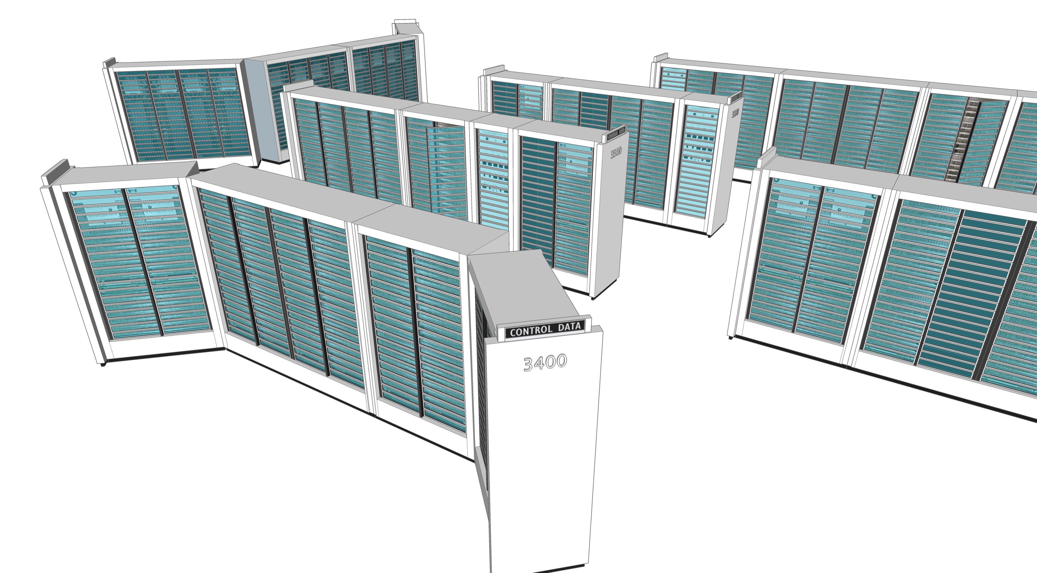 3D rendering of CDC 3000 family (CDC 3400, CDC 3200, CDC 3100, CDC 3600).